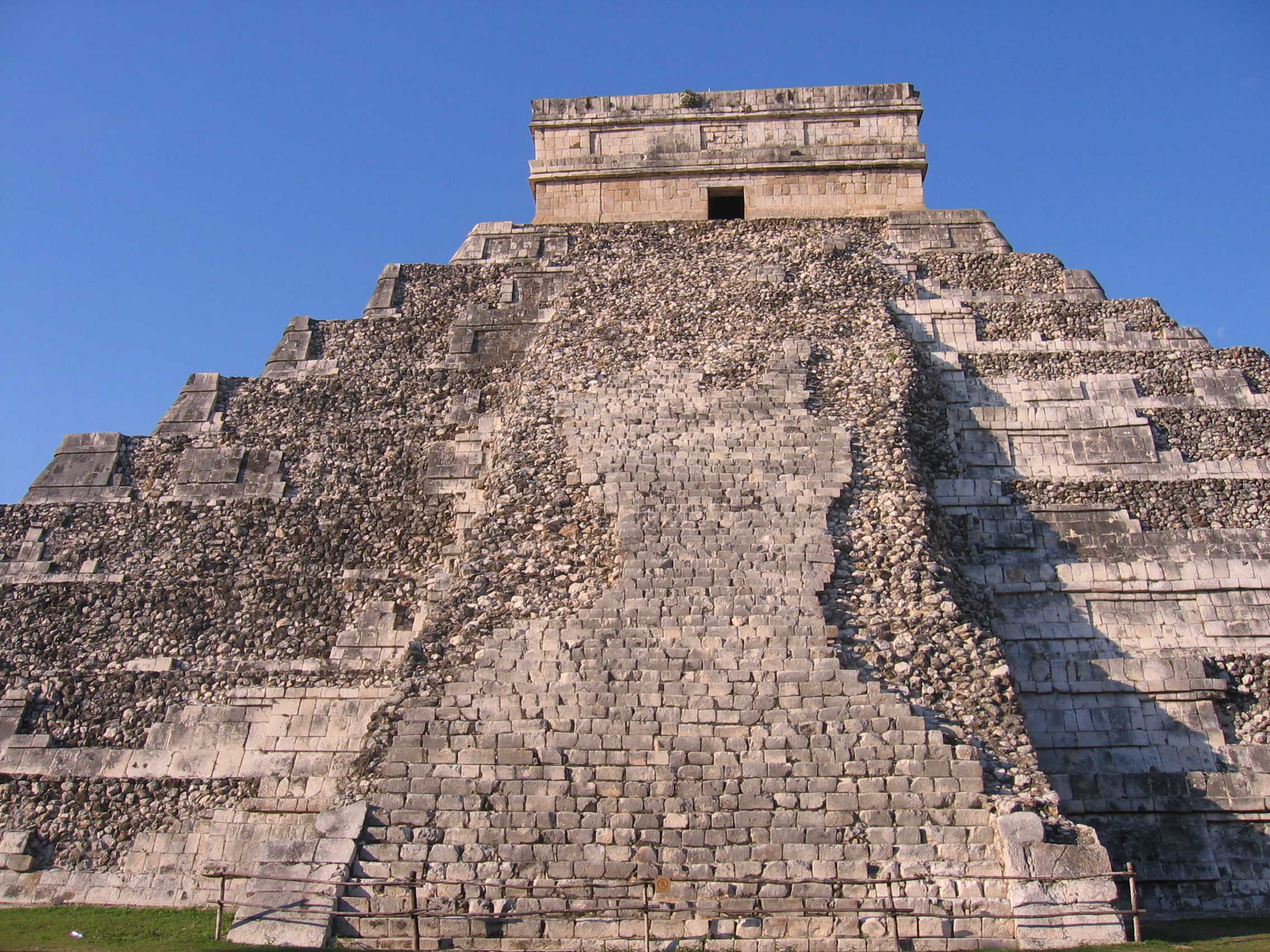 East side of El Castillo at Chichen Itza